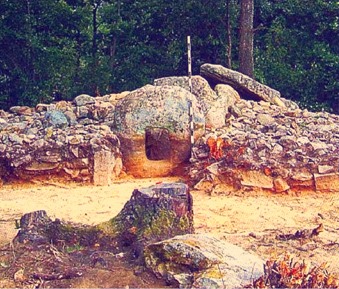 Belevren dolmens BG